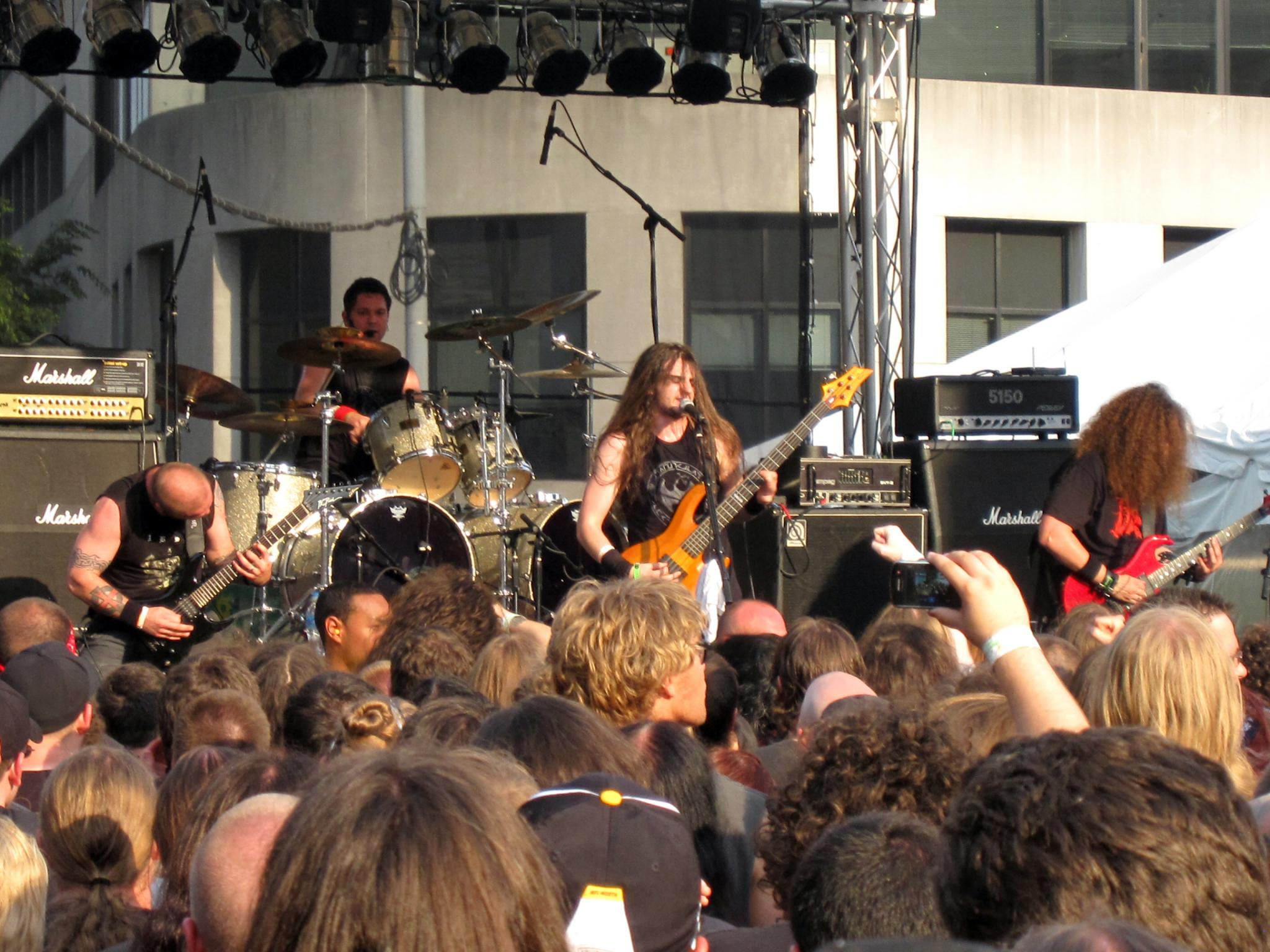 Absu live at Maryland Deathfest 2009